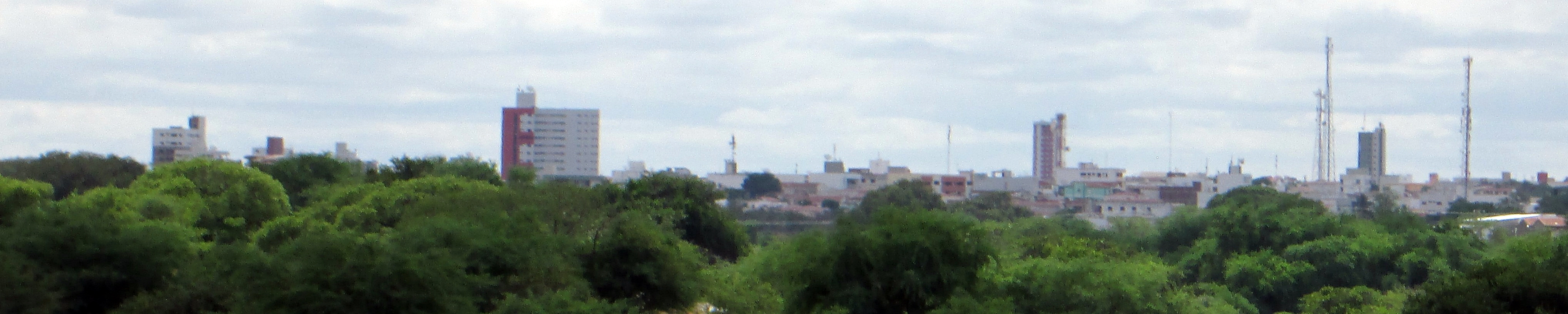 Skyline.